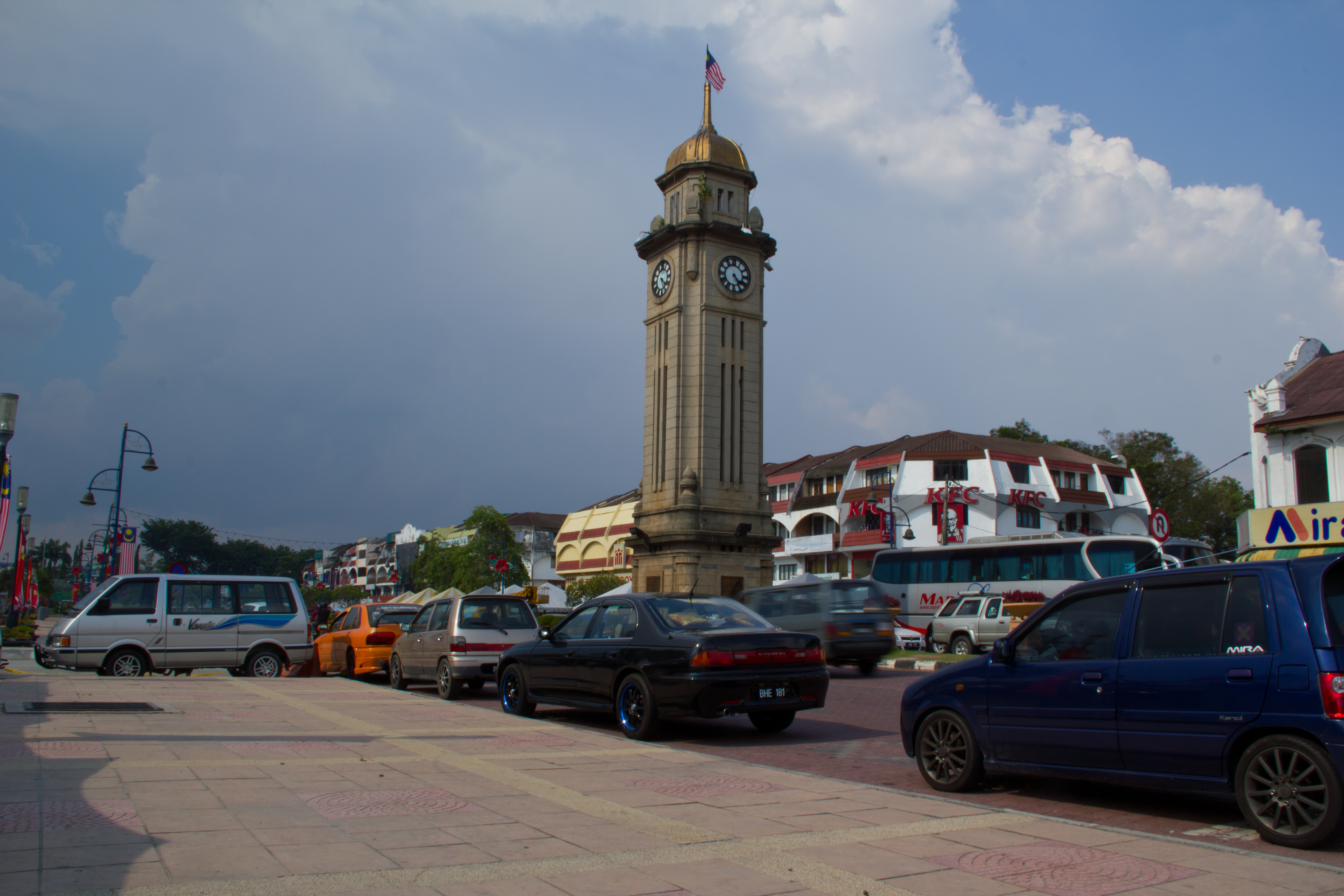 Year 2010 Sungai Petani Clock Tower